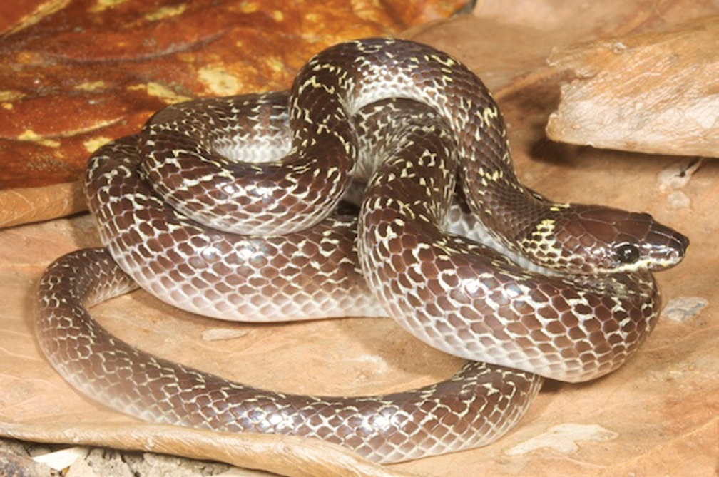 Lycodon capucinus. Male (USNM 573681, SVL 395 mm, TL 491 mm) from the town of Same, Manufahi Distict.